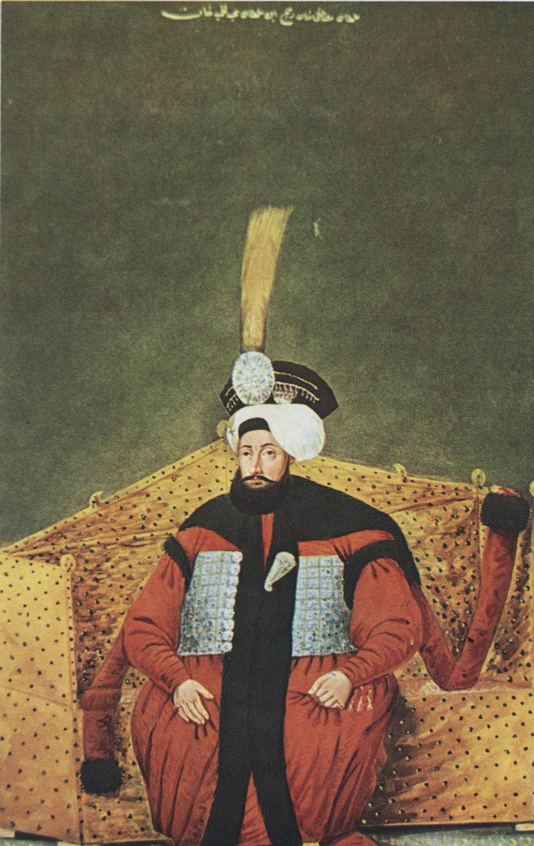 Mustapha IV